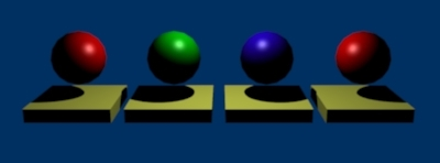 An instance of an n-universe with multiple objects, comprising a color variable, a space variable and a temporal constant